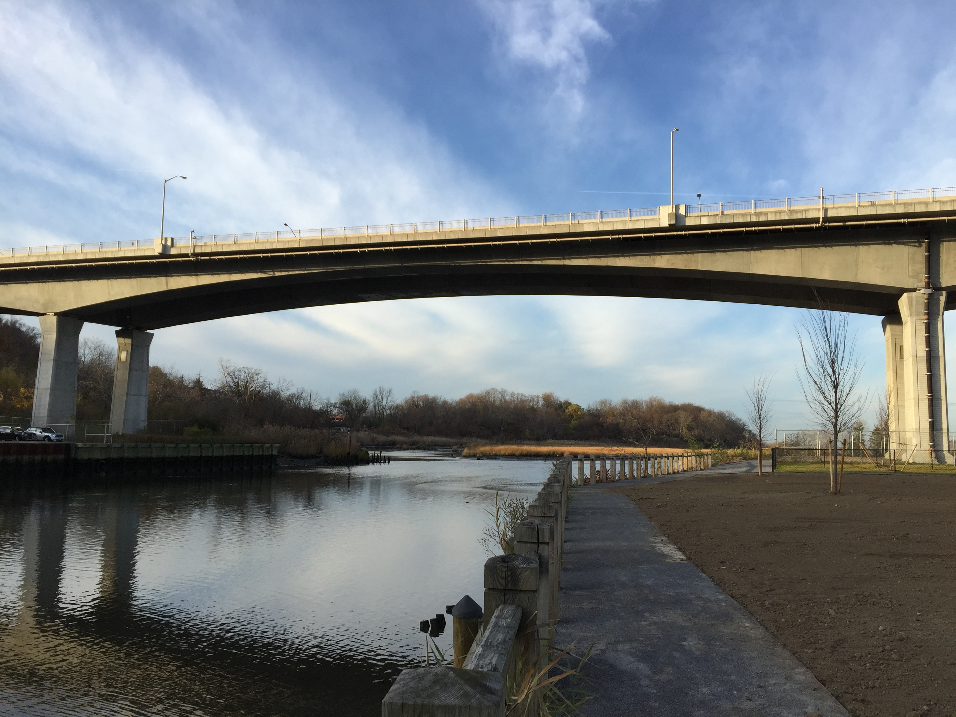 Central span of the new Roslyn Viaduct over Hempstead Harbor in Roslyn, New York in 2015